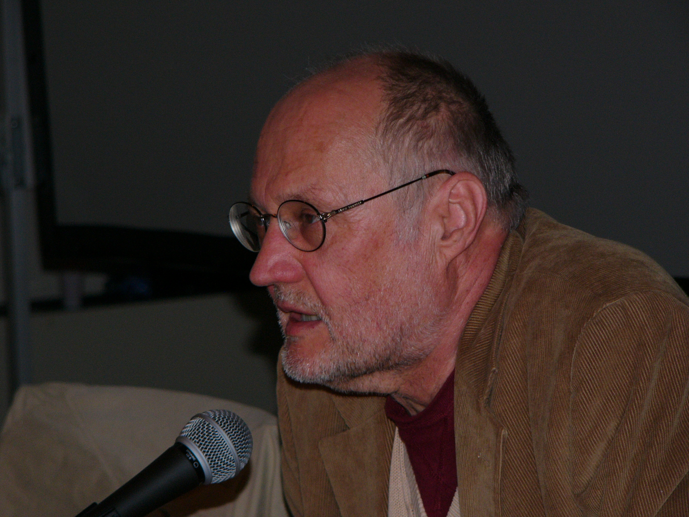 photo of Czech philosopher Václav Bělohradský